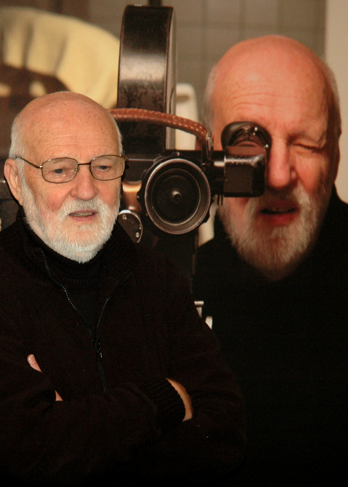 Jan Švankmajer, Czech film director of animated films, surrealist artist